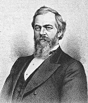 Ebenezer McJunkin, US Representative from Pennsylvania